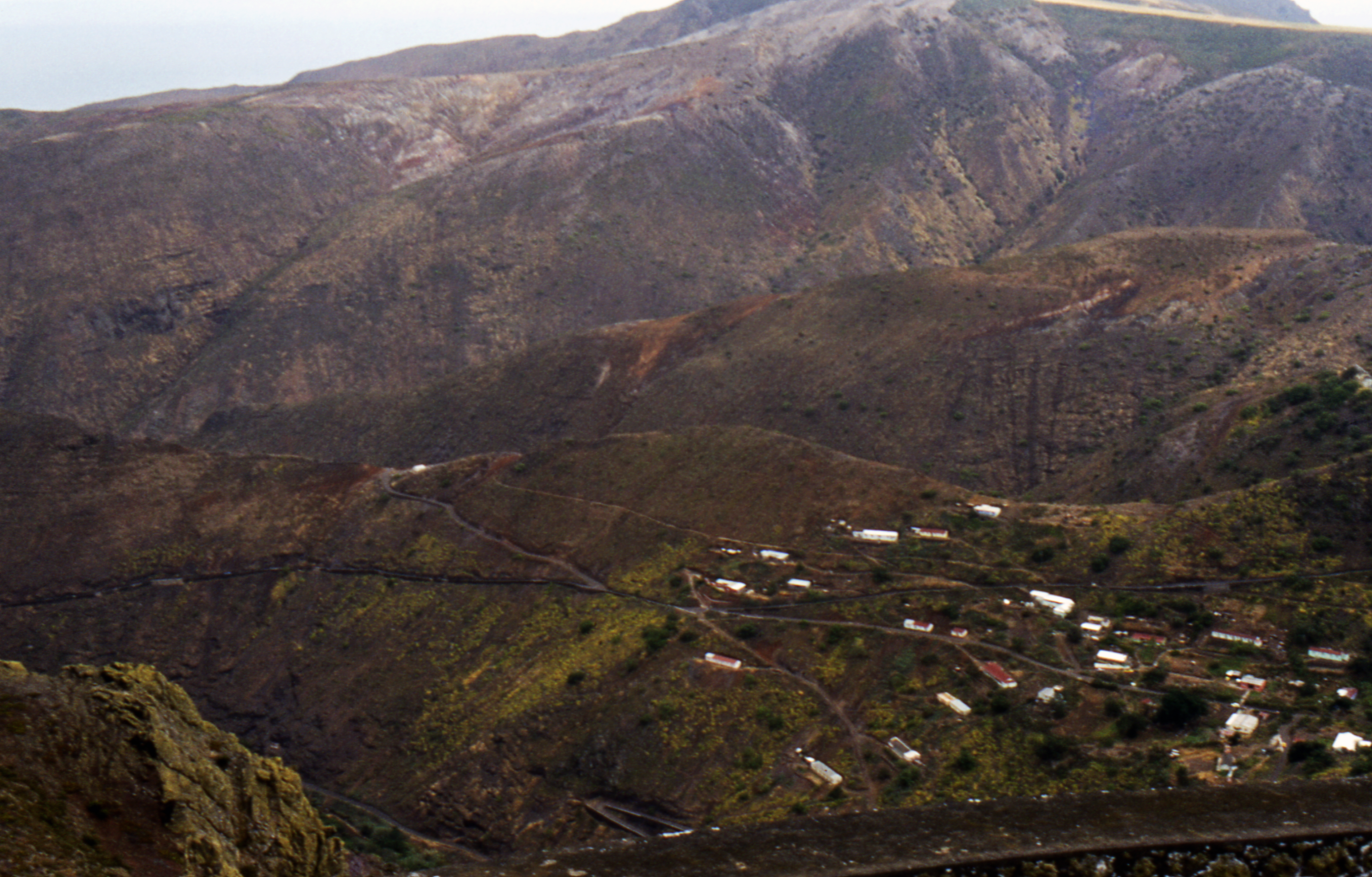 Saint Helena Island.